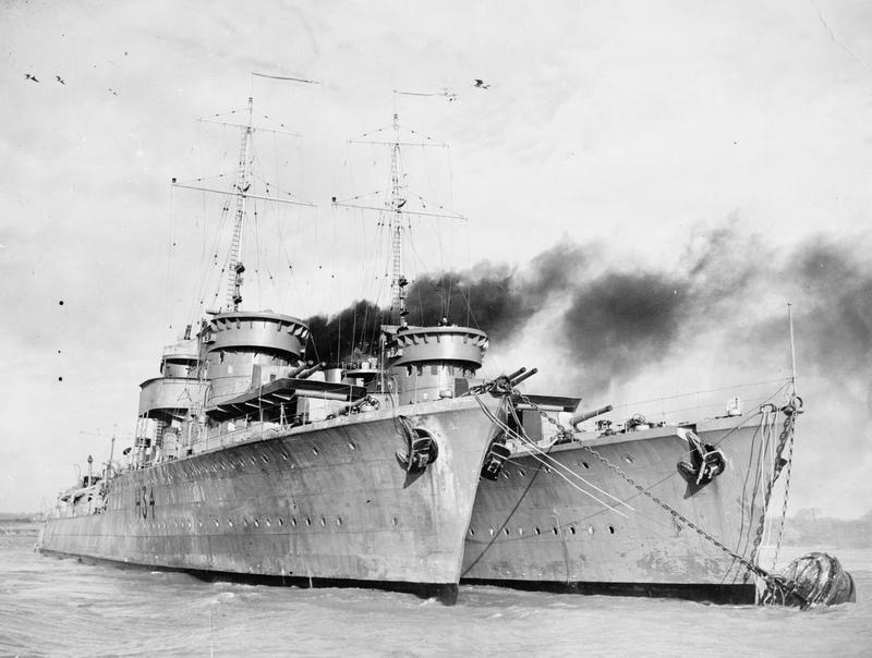 The Polish Navy during the Second World War Two Polish destroyers, ORP Grom (Thunder) and ORP Błyskawica (Lightning) seen after Operation 'Pekin', the evacuation of units of the Polish Navy to British home waters in September 1939. The destroyers are moored side by side at a buoy.